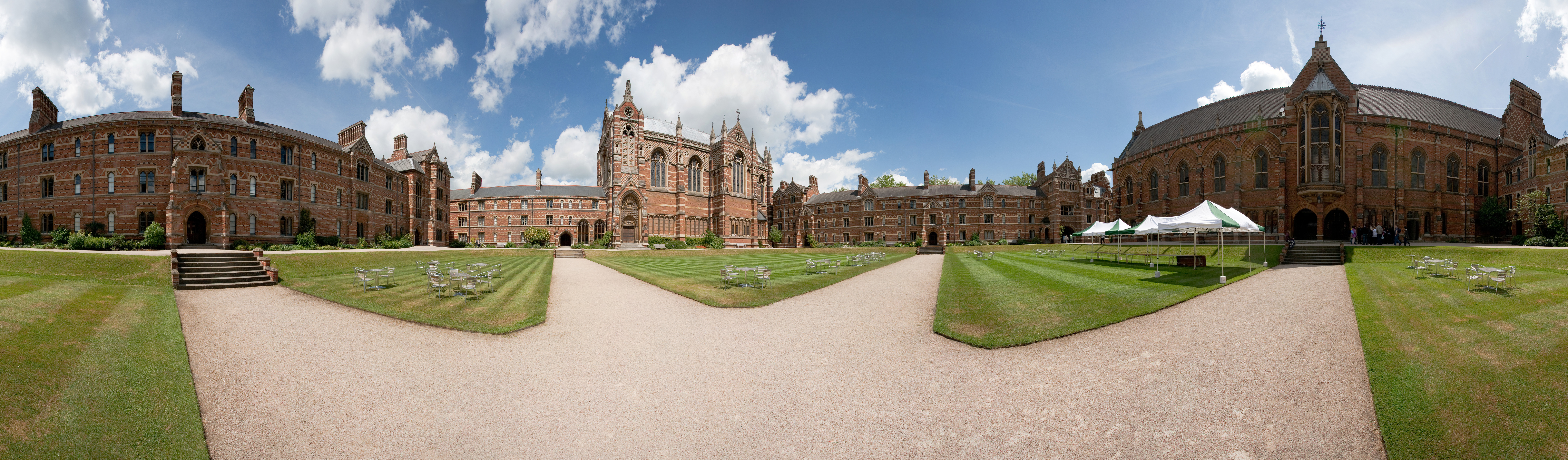 A 360 degree panoramic view of the Keble College quadrangle in Oxford, England.